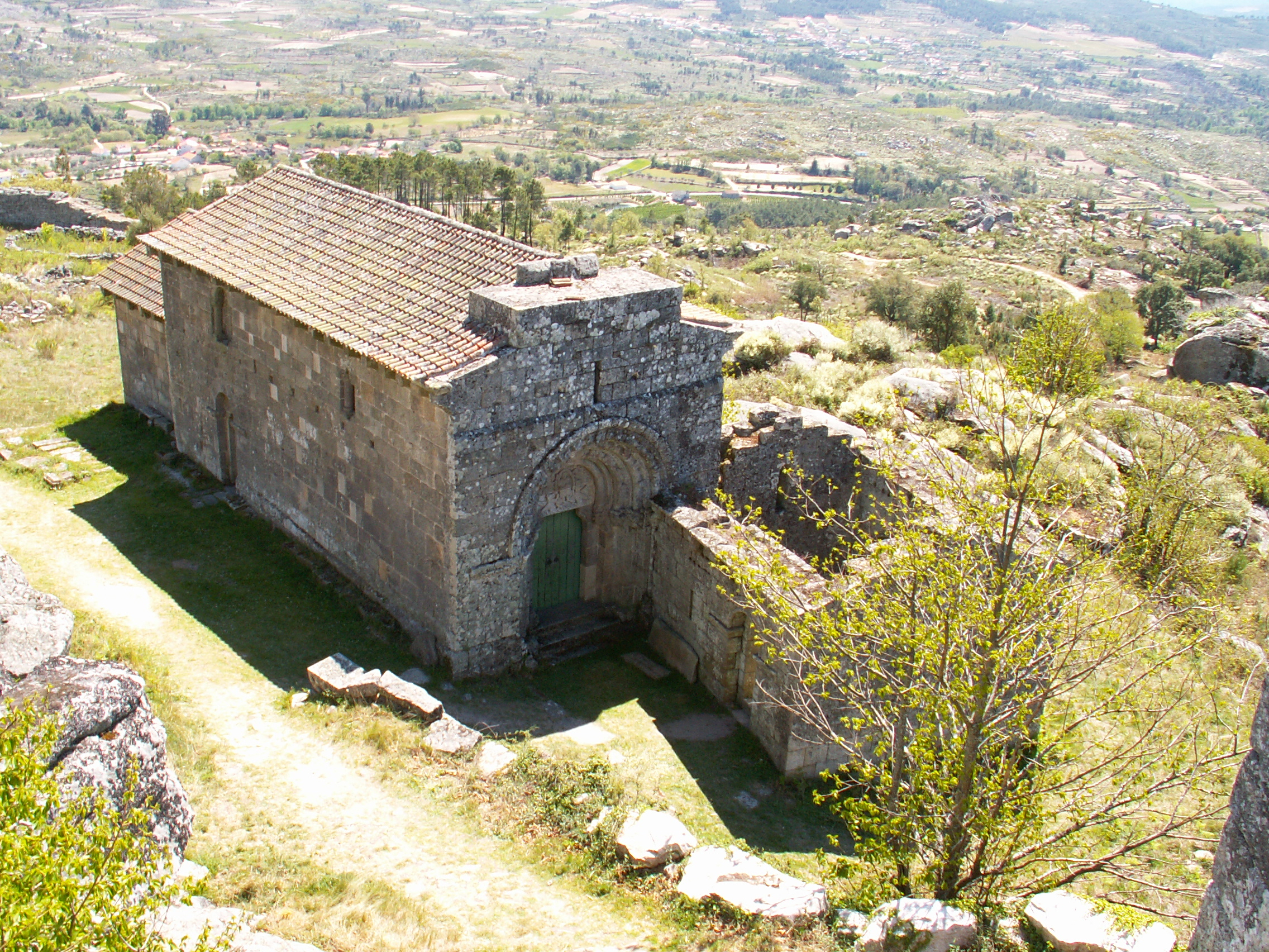 The view from the walls I